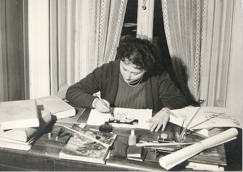 Italian artist Maria Ghezzi drawing